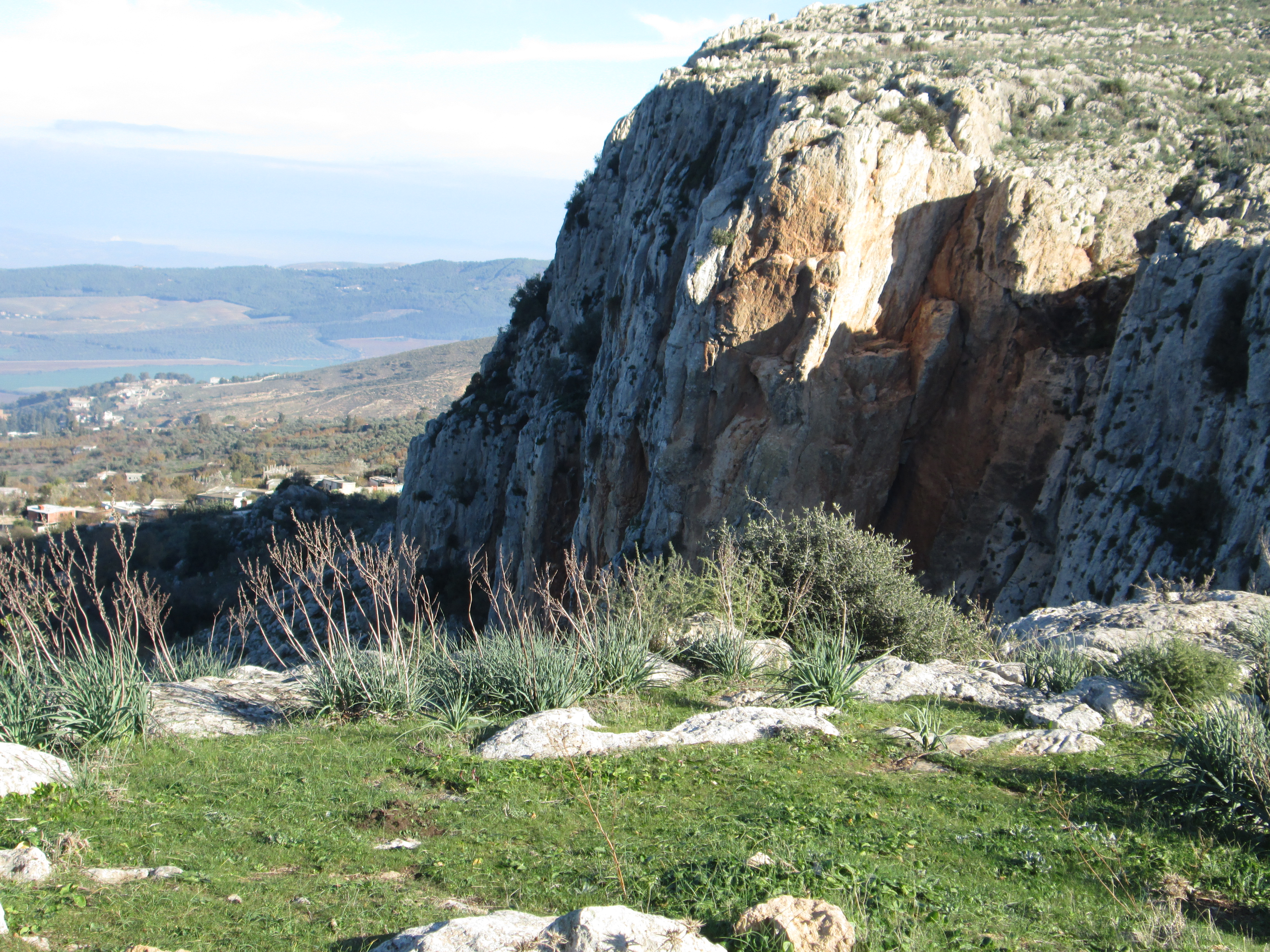 parc djebba